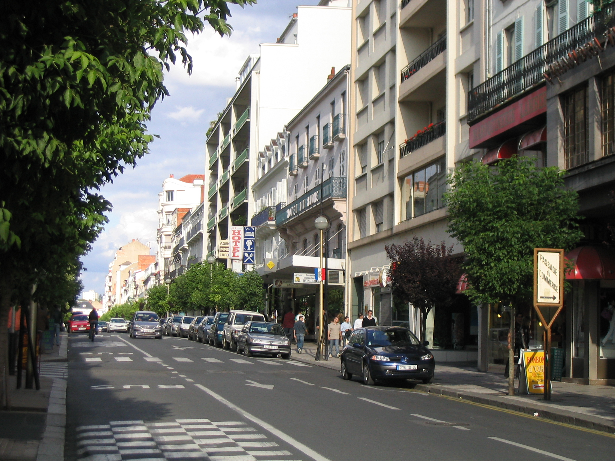 The rue de Paris street in Vichy, France.